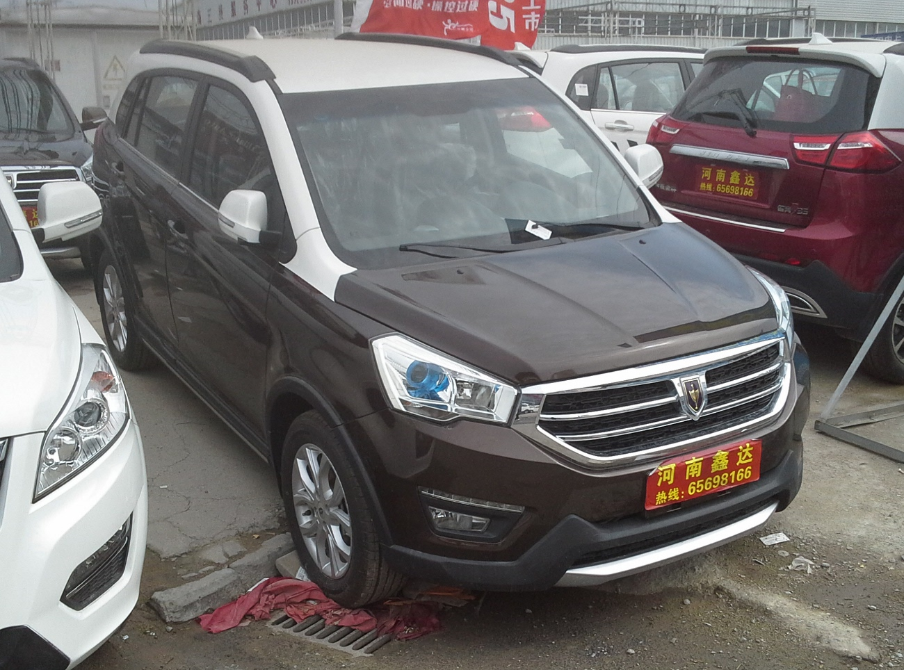 Jinbei S35 photographed in Zhengzhou, Henan province, China.